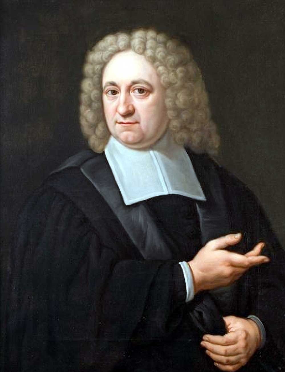 Johannes a Marck (1656-1731) Dutch Reformed theologian